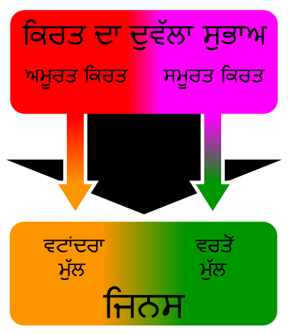 Two fold character of labour